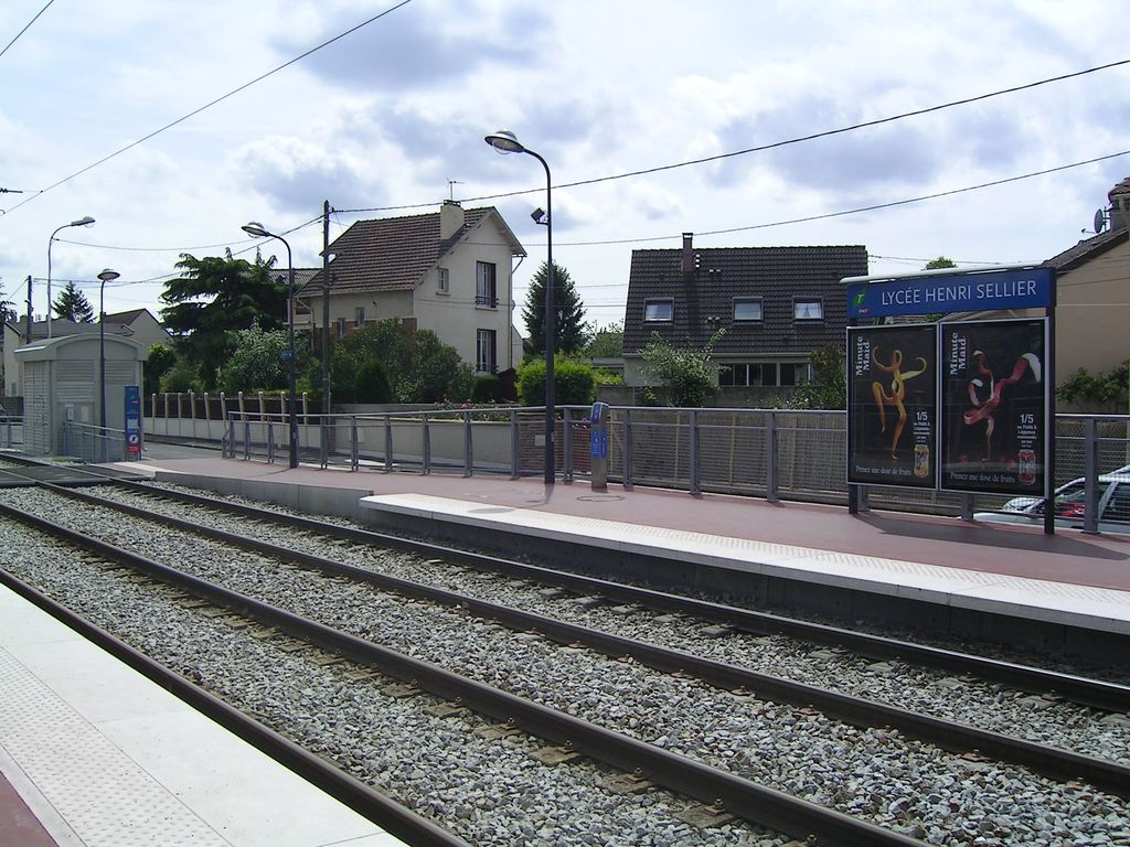 Arrêt Lycée H.Sellier Photo personnelle (own work) de Marianna